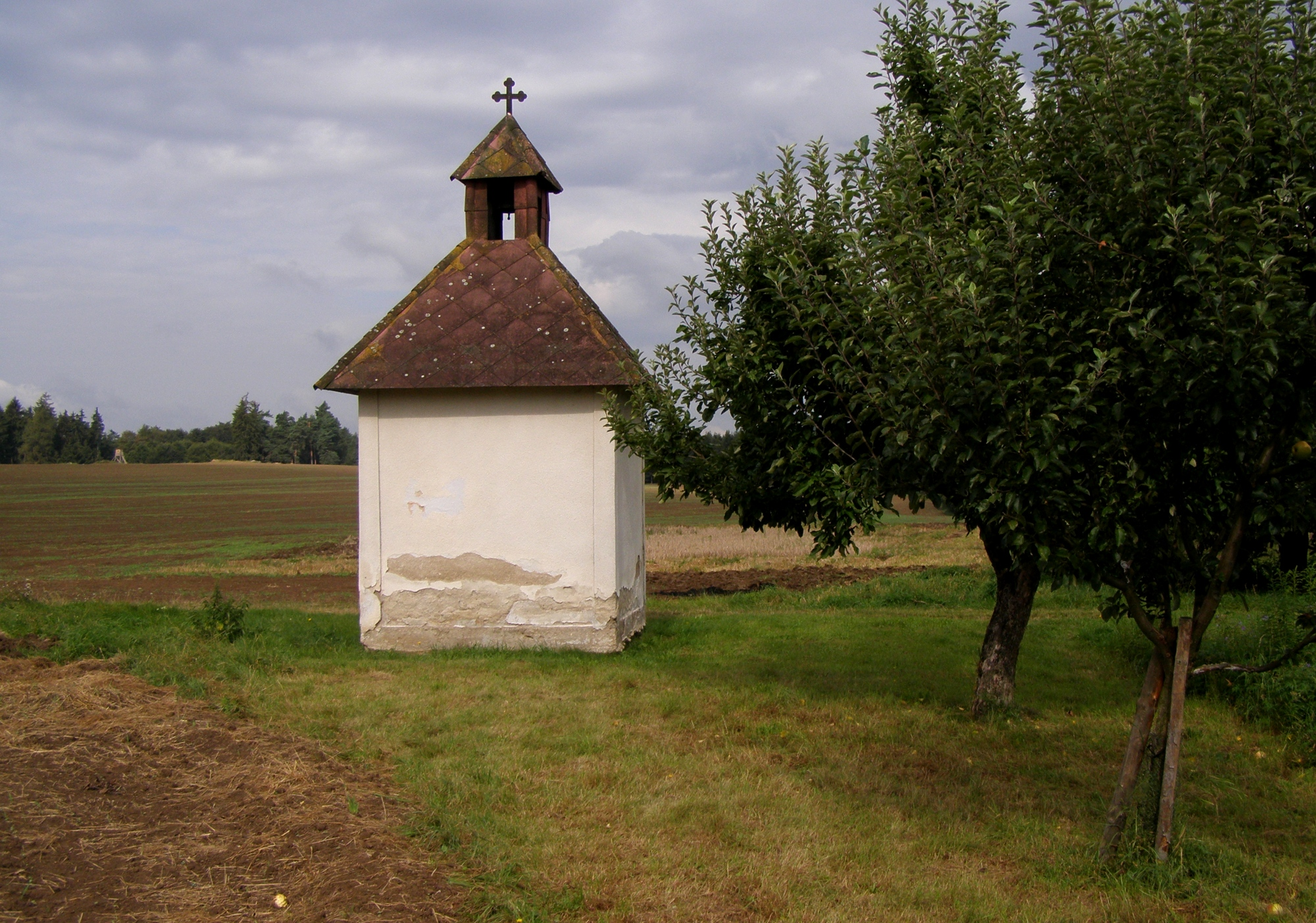 Kamenná-Klementice. Chapel (built in 1840)